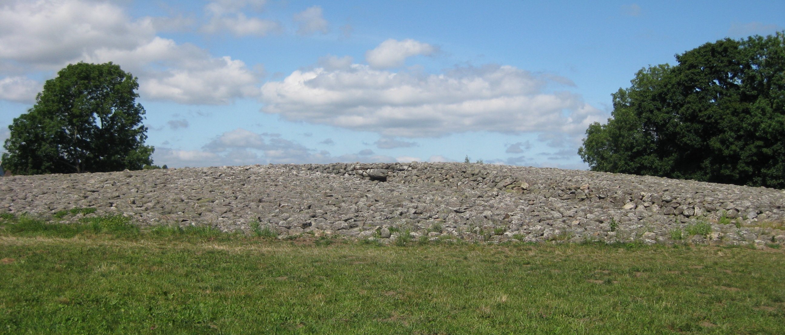 The ancient burial site at Kivik